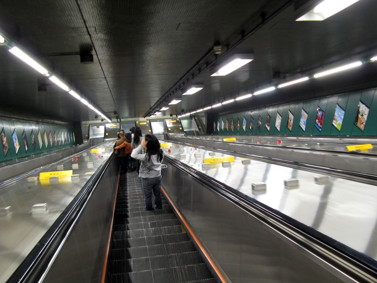 HK MTR Fortress Hill Station Access 港鐵炮台山站